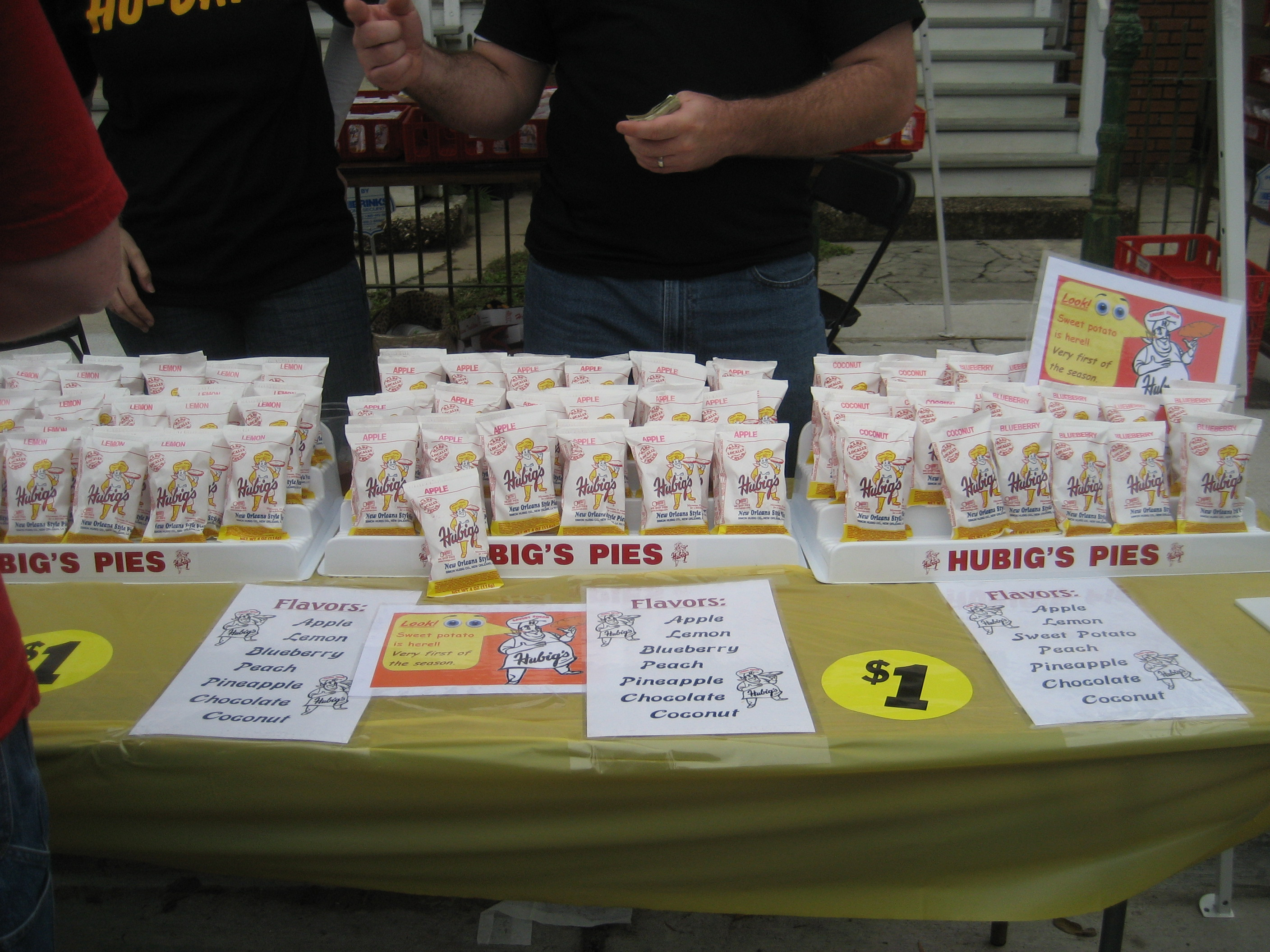 Hubig's Pies at Oak Street Po-Boy Festival in New Orleans, Louisiana